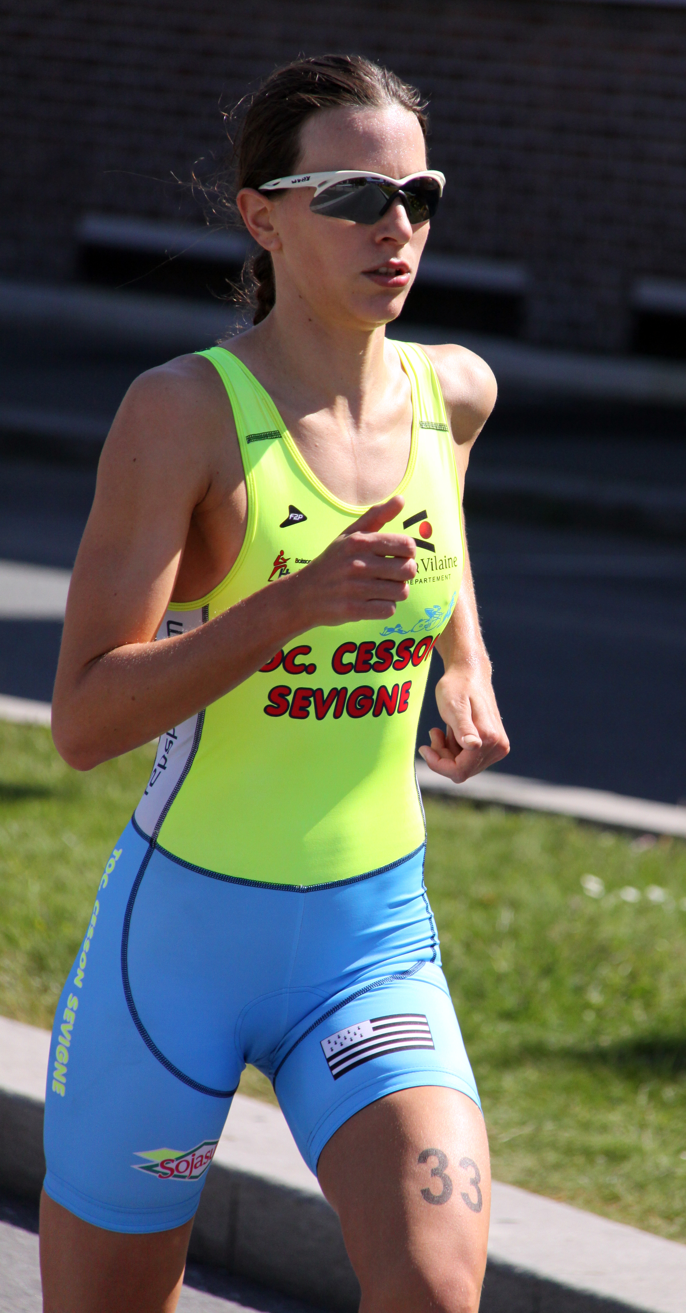 Radka Vodickova at the Triathlon in Dunkerque 2010